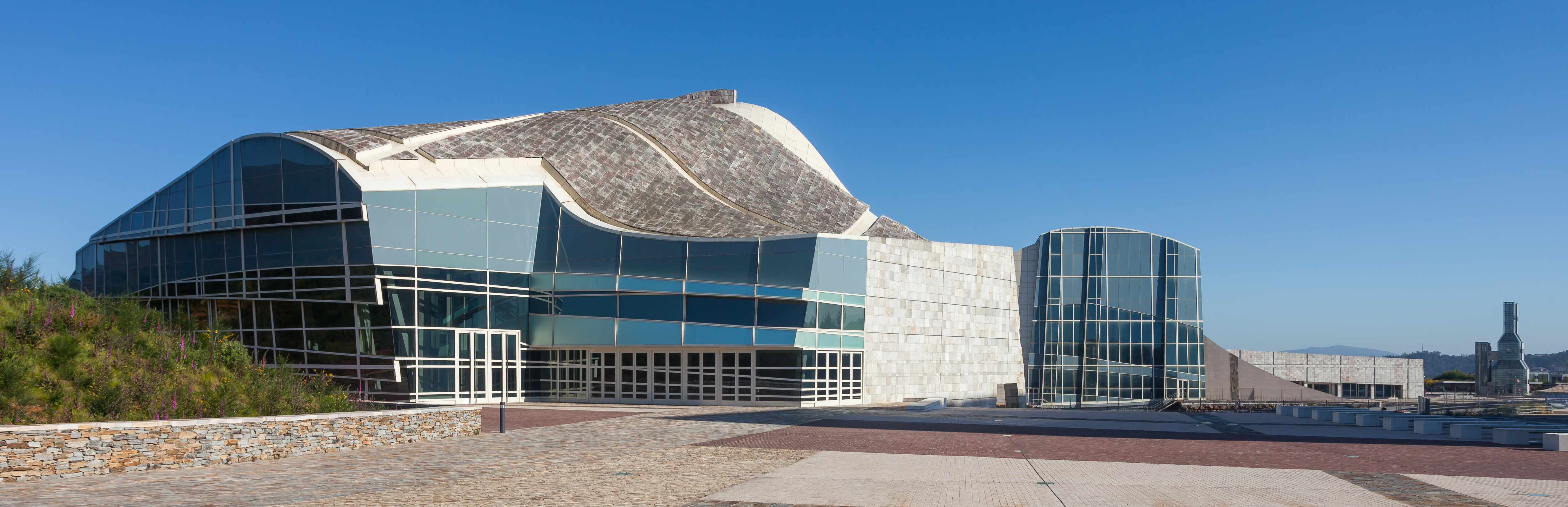 City of the Culture, Santiago de Compostela. By Peter EisenmanGalego: Cidade da Cultura, Santiago de Compostela, Galiza. Peter Eisenman Arquitecto